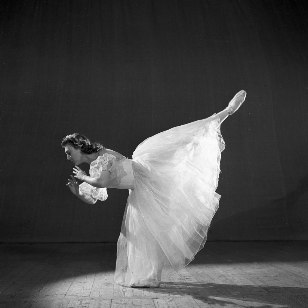 “Ballerina Raisa Struchkova in scene from ballet Sleeping Beauty”. Raisa Struchkova as Aurora in a scene from Pyotr Tchaikovsky's ballet Sleeping Beauty staged at the State Academic Bolshoi Theater of the USSR.